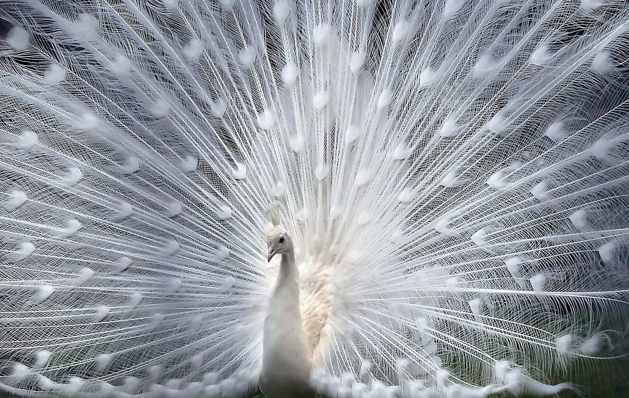 An Albino peacock. Uploaded to flickr by lightgazer